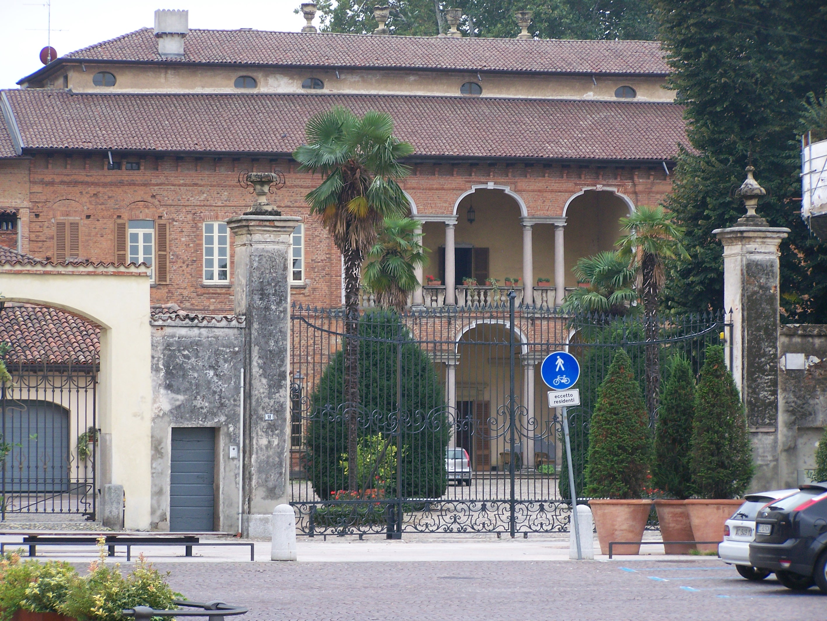 Villa Manzoli in Corbetta (MI) - Italy